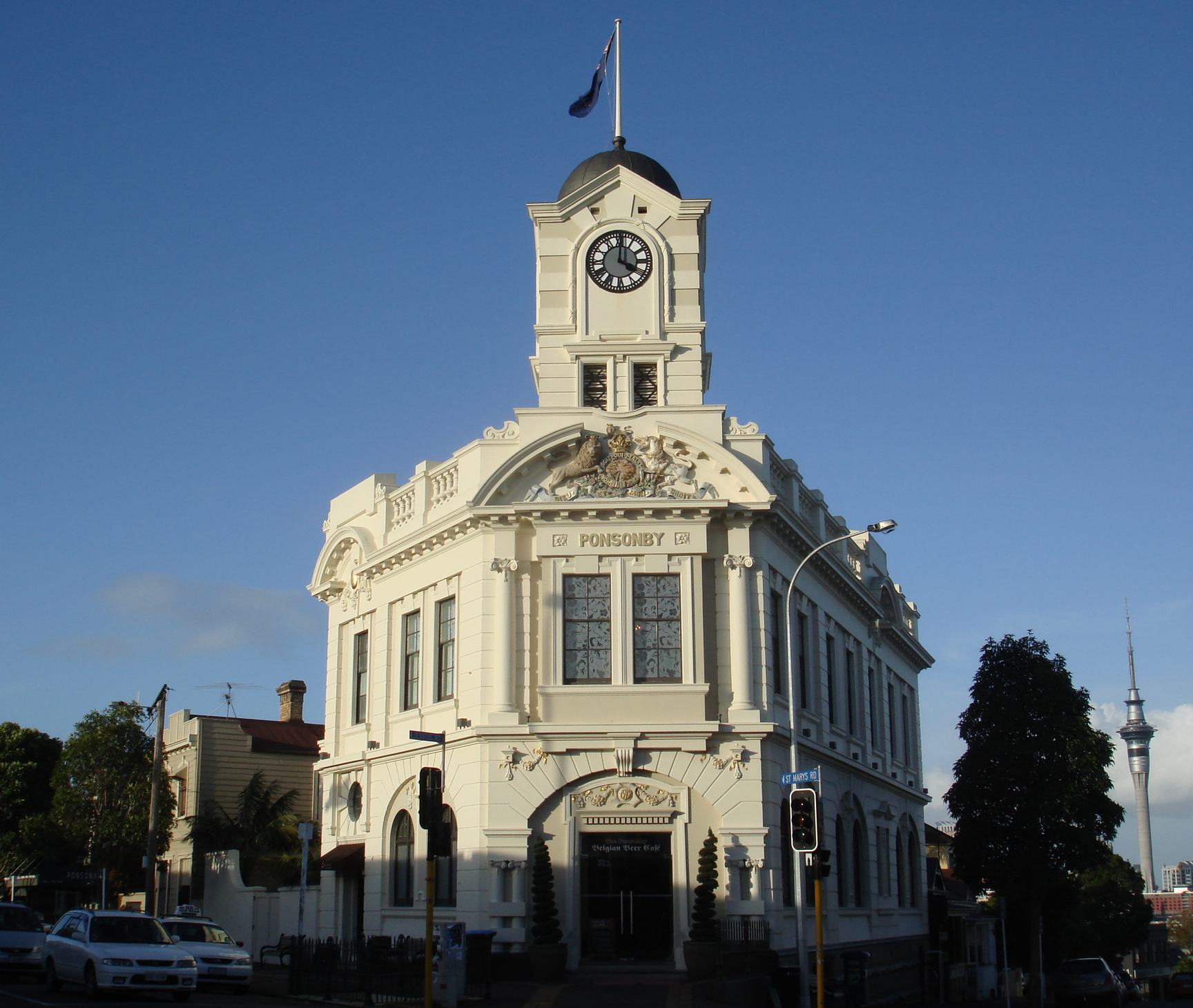 This beer cafe sits across from the Leys Institute Ponsonby Community Library. The Auckland Tower is in the distance to the right.